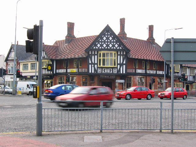 Haworth Arms - Beverley Road, Hull, East Riding of Yorkshire, England.This busy road junction is just about in the centre of the grid square. Beverley Road runs north to Beverley and south to Hull City centre. Cottingham Road runs west to Hull University in the adjacent square. Clough Road runs east into the industrial and retail area. Throughout the square there are large and small houses, plenty of shops and public houses. Seen here on the corner of Cottingham Road is the Haworth Arms, a popular watering hole for students and residents alike.